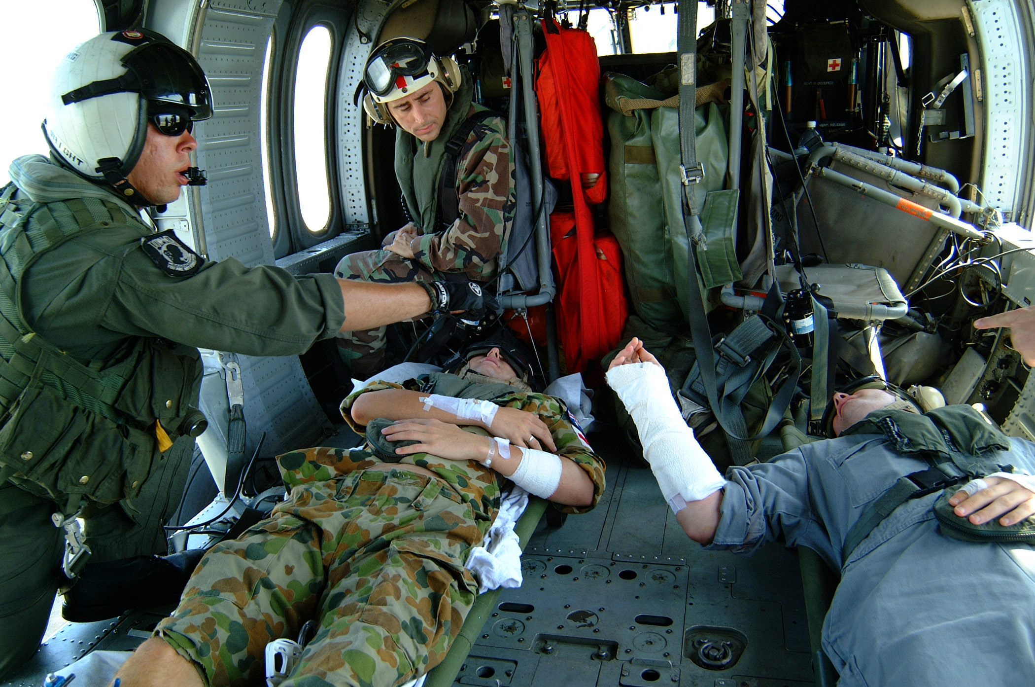 Nias, Indonesia (Apr. 5, 2005) – An air crewman aboard an U.S. Navy MH-60S Seahawk helicopter, assigned to Helicopter Combat Support Squadron Five (HC-5), embarked about the Military Sealift Command (MSC) combat stores ship USNS Niagara Falls (T-AFS 3), makes final preparations for take-off as Chief Hospital Corpsman Patrick Nardulli, rear, monitors his patients. The U.S. Navy helicopter crew, accompanied by medical personnel assigned to the MSC hospital ship USNS Mercy (T-AH 19), evacuated the two survivors of the April 2, 2005 crash of a Royal Australian Navy Sea King helicopter in Nias, Indonesia. At the request of the government of Indonesia, Mercy and Niagara Falls are on station off the coast of Nias, providing assistance as determined appropriate and necessary with earthquake disaster relief efforts and provide medical assistance to those in need. U.S. Navy photo by Journalist 1st Class Joshua Smith (RELEASED)